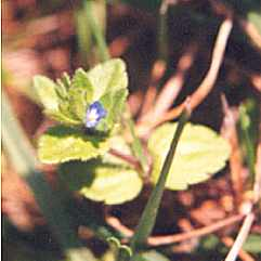 Speedwell in a garden in Onstwedde.